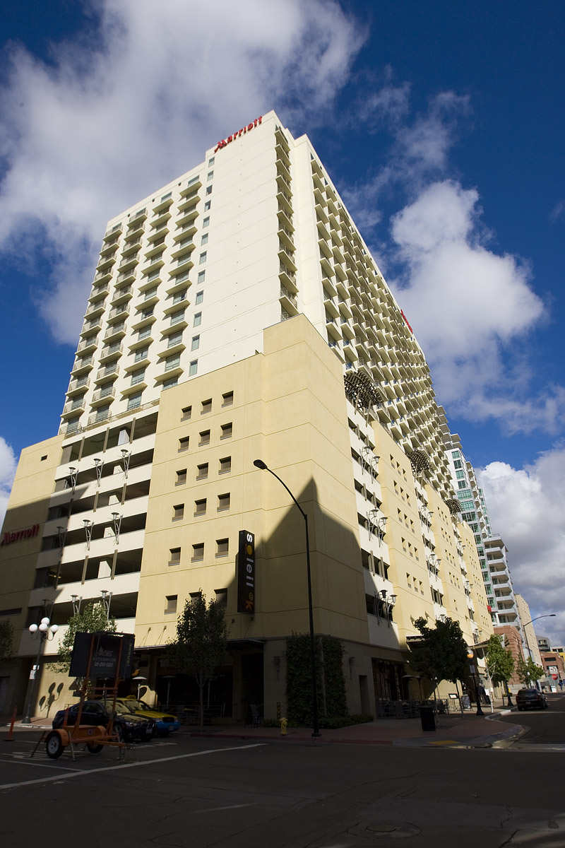 Marriott Hotel in San Diego downtown